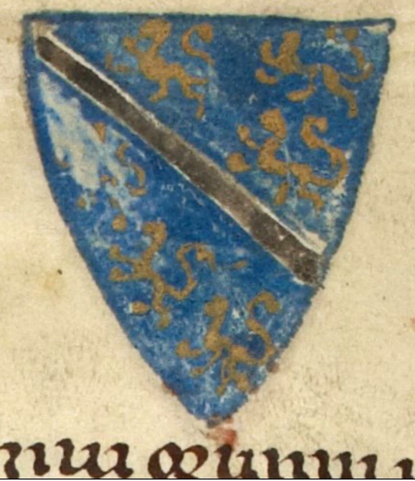 Henry de Bohun , coat of arms, drawn by Matthew Paris, Historia anglorum, 1250-59 [British Library, Royal MS 14 C VII, f°106r]